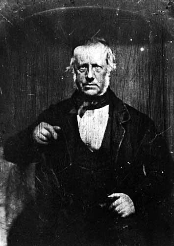 Charles Philippe Hippolyte de Thierry (1793–1864)